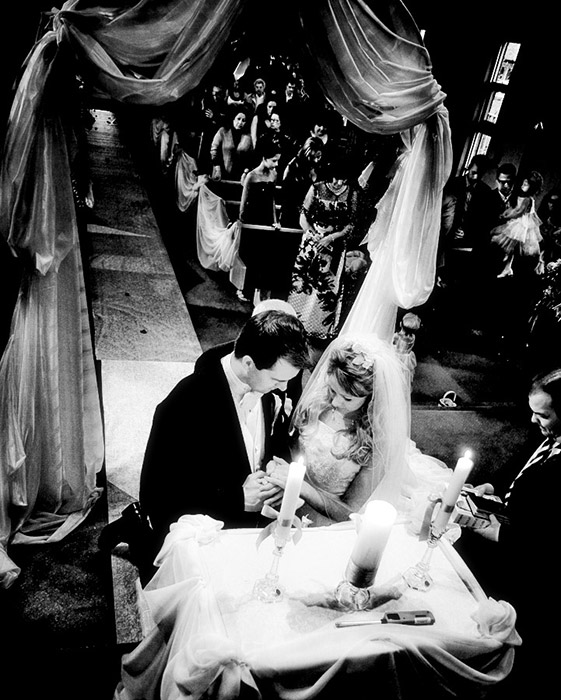 Russian church ceremony in Toronto,Canada